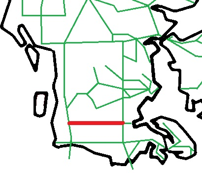 Map of railways in Southern Jutland in Denmark with the state railway Klosterbanen in red.